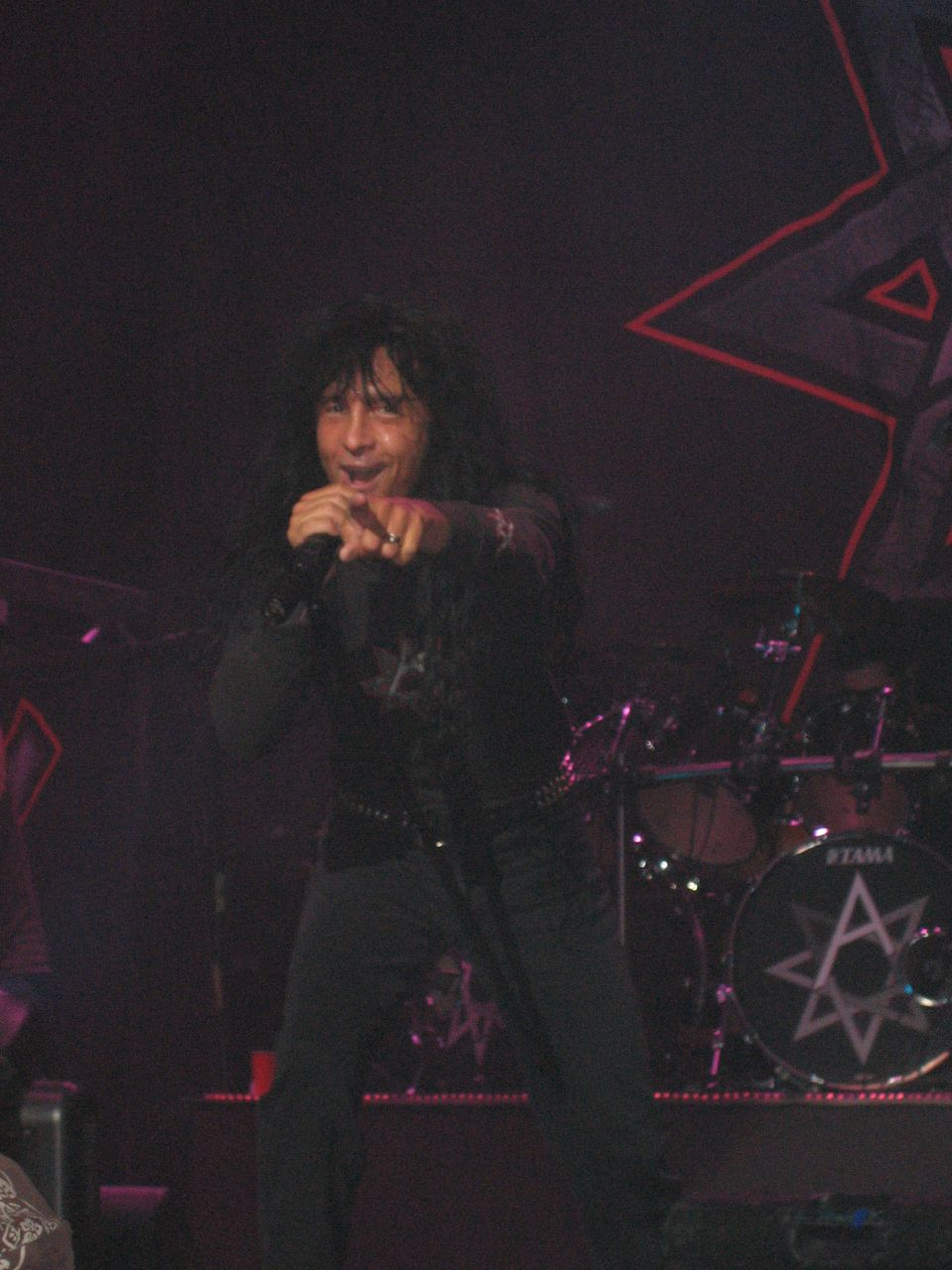 Joey Belladonna of Anthrax, performing in the Judas Priest Retribution 2005 Tour